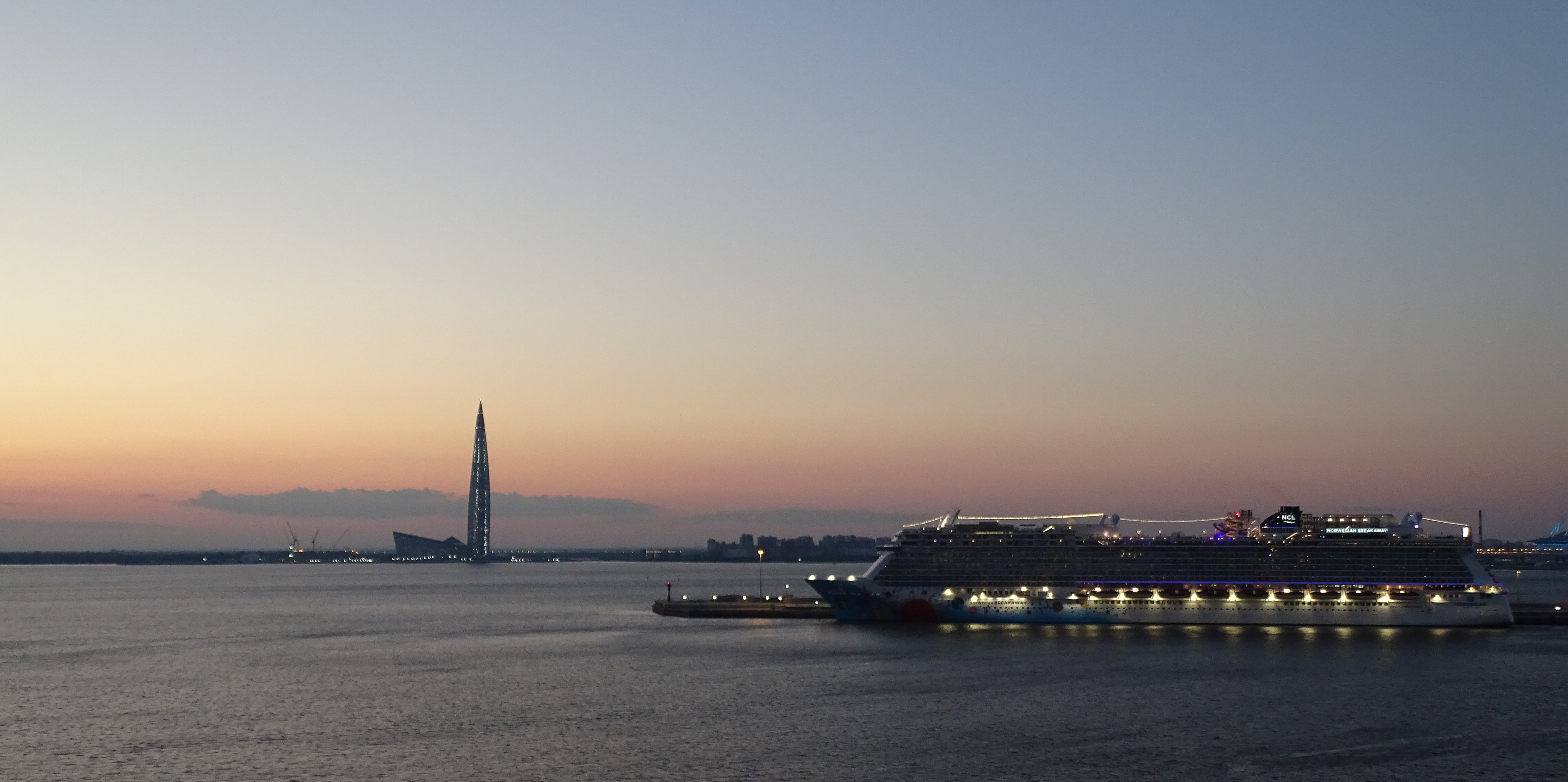 The Lakhta Center, an 87-story skyscraper in Saint Petersburg, Russia.